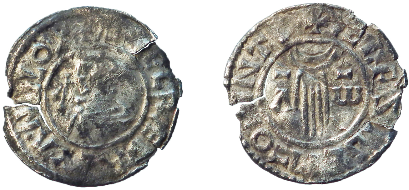 A silver penny of Aethelred II, 979-985, First Hand Type, Winchester mint. North 766.